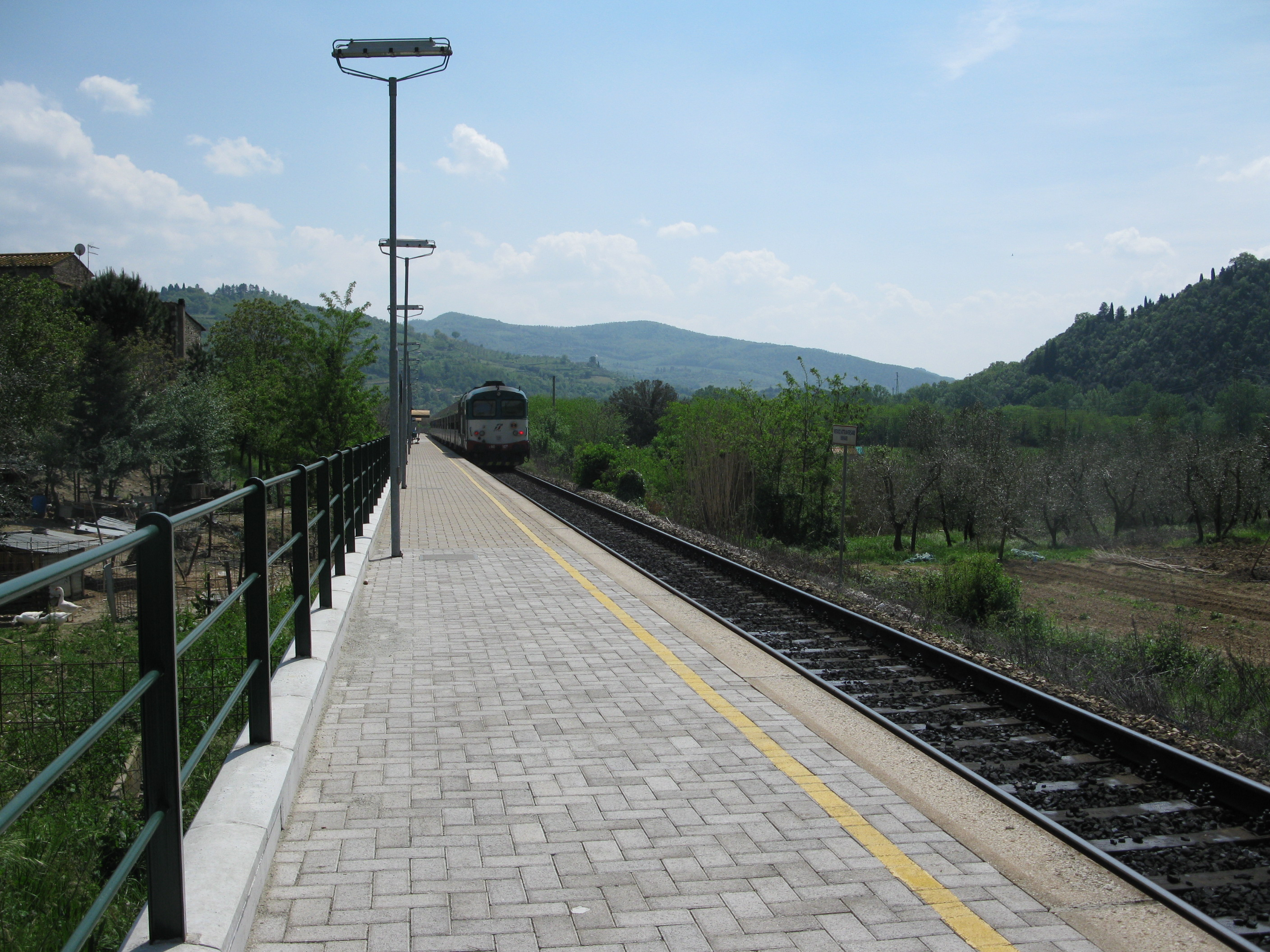 Scopeti railway station, train departure